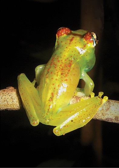 Boophis ankarafensis: Vocalizing male sitting on a branch (specimen not collected).